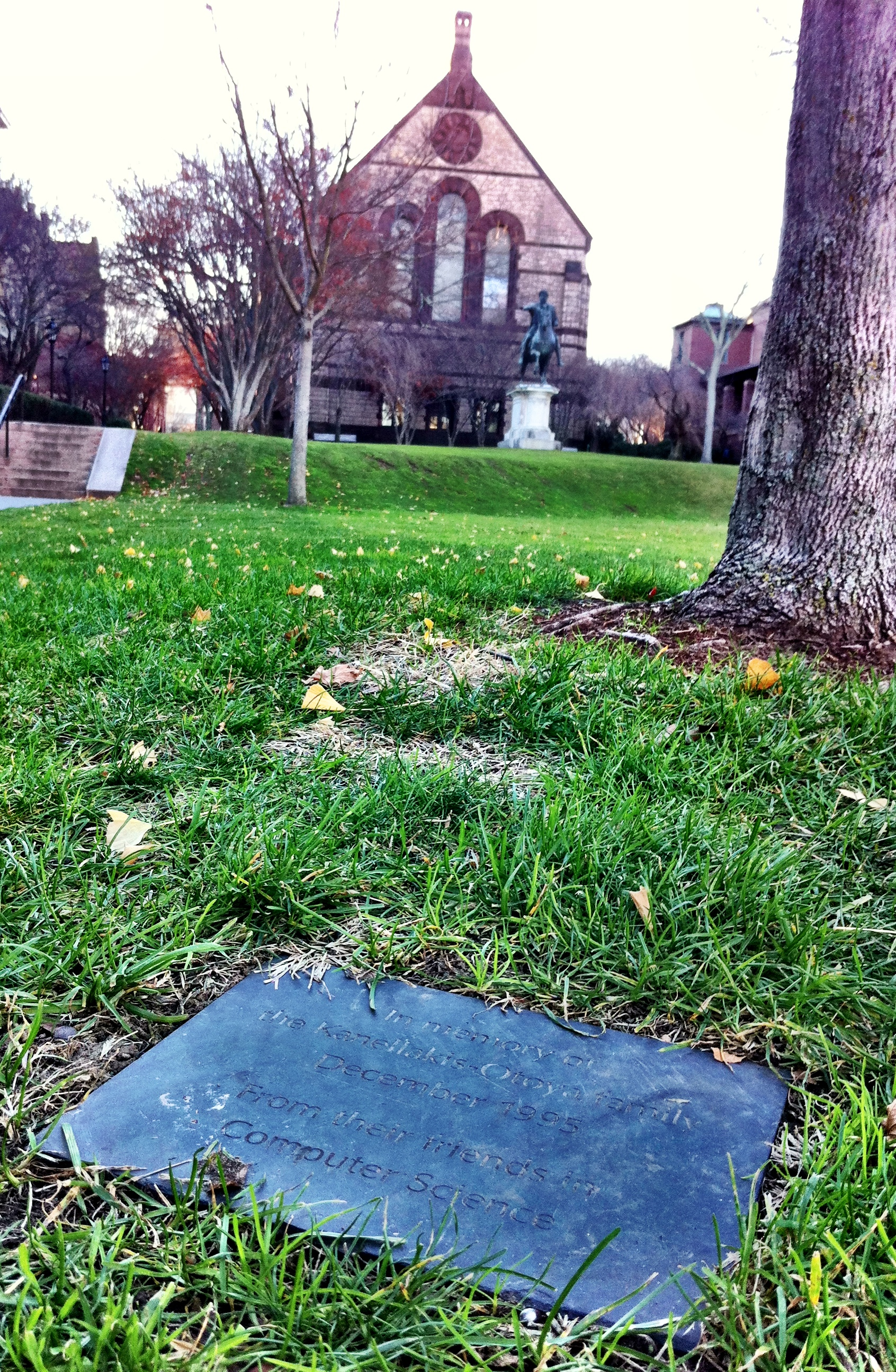 Plaque and (part of) tree planted in Lincoln Field at Brown University in memory of Paris C. Kanellakis and his family. December 2012.